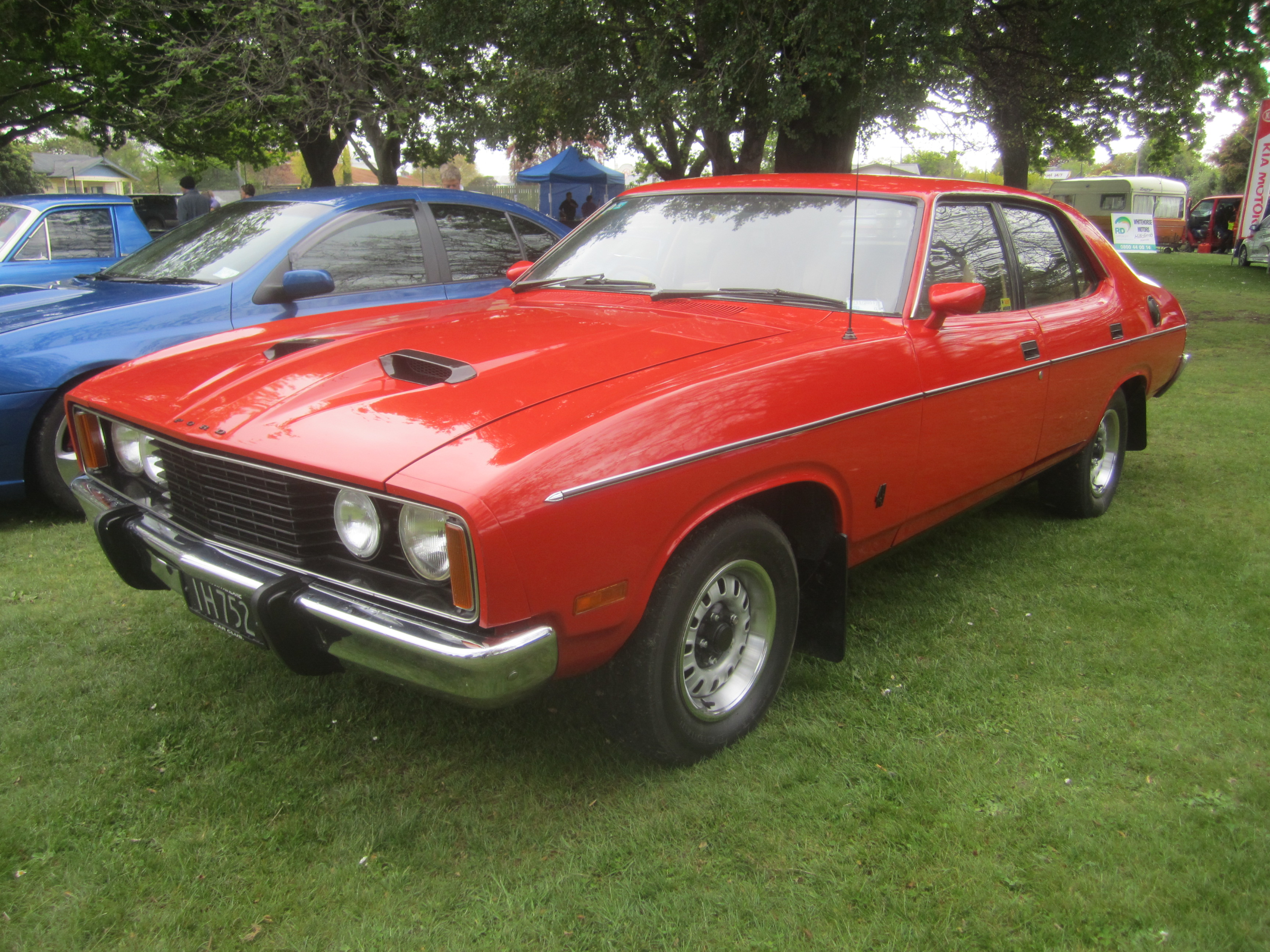 Red Flame. 302 V8 The XC Falcon was the 2nd facelift on the XA, Ford lowered the waistline at the rear doors of the XC and fitted lower headrests, in a bid to increase visibility, it got a square looking grille, new bumpers and improved tail lights. The Fairmont featured square headlights, the rest had rounded lights. A redesigned instrument panel got circular instruments , The Futura and the mighty GT were now discontinued Built from July 1976- March 1979 The update in 1978 got improved suspension, it saw the FORD letters on the bonnet disappear and Ford oval appear in the centre of the grille. Engines; 3.3 and 4.1 6s or 4.9 and 5.8 V8s Sedans available: Standard, 500, Fairmont and Fairmont GXL The GS Rally Pack was available on 500 and the Fairmont, but not GXL, the GXL had all the GS options plus more. The GS was available on sedan, wagon, utes and vans. With the Hardtops, all Hardtops were GSs, Fairmonts or the Limited edition Cobra The GS came with; Outside; twin scoop bonnet, 12 slot rims with black centres (not Fairmont), also black was the grille, sills, rear taillight panel, window surrounds, door handles, fuel cap and overriders. Inside; full instrumentation and sports steering wheel On top of this other options available were; sunroof, 302 or 351 V8